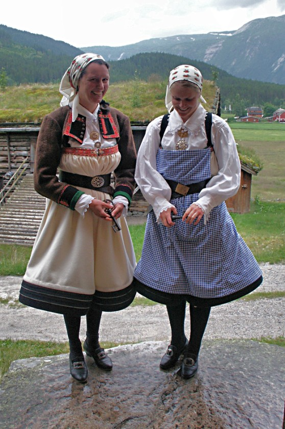 Description:Local everyday folk costumes from Valle municipality, Setesdal, Aust-Agder county, Norway. The left more true to the Setesdalsbunad, also known as stakkan. The white skirt that is shown here was used when working, for church or festive occasions a black one with red and green edging is worn over this skirt. The right costume is probably a more modern version/interpretation.